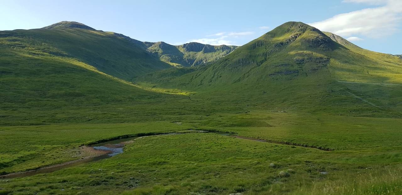 Scottish Highlands